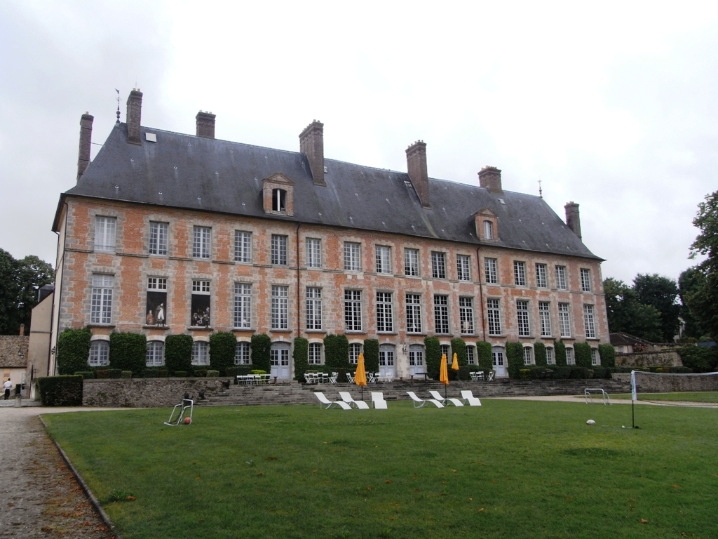 Castle of Les Mesnuls, Yvelines, France